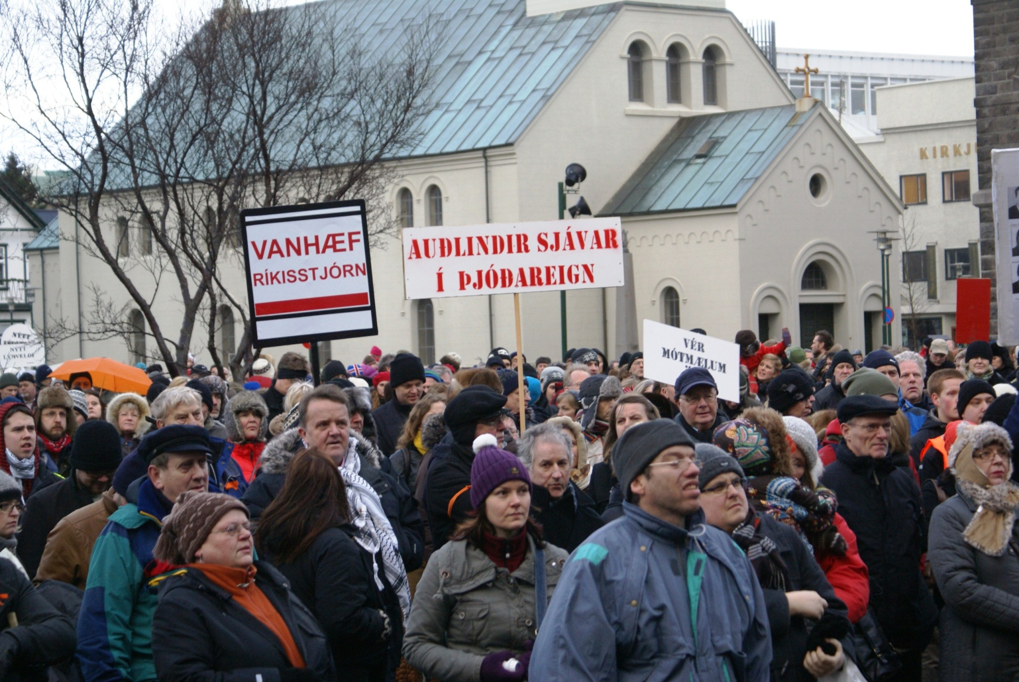 Week 16 2009-01-16. Protesters at Austurvöllur. The Kitchenware-Revolution in Iceland was organize by Hördur Torfason and "Raddir Fólksins". It started in the wake of the collapse of the banking system followed be the decimation of Icelandic economy in the beginning of October 2008. It resulted in the resignation of Geir H. Haarde and his cabinet on January 26. 2009. The protest meetings were held every Saturday at the Austurvöllur square in front of Alþingishús - the Icelandic parliament house. The first meeting (week 1) was dated Saturday 11. October 2008. The 16th meeting dated January 24. 2009